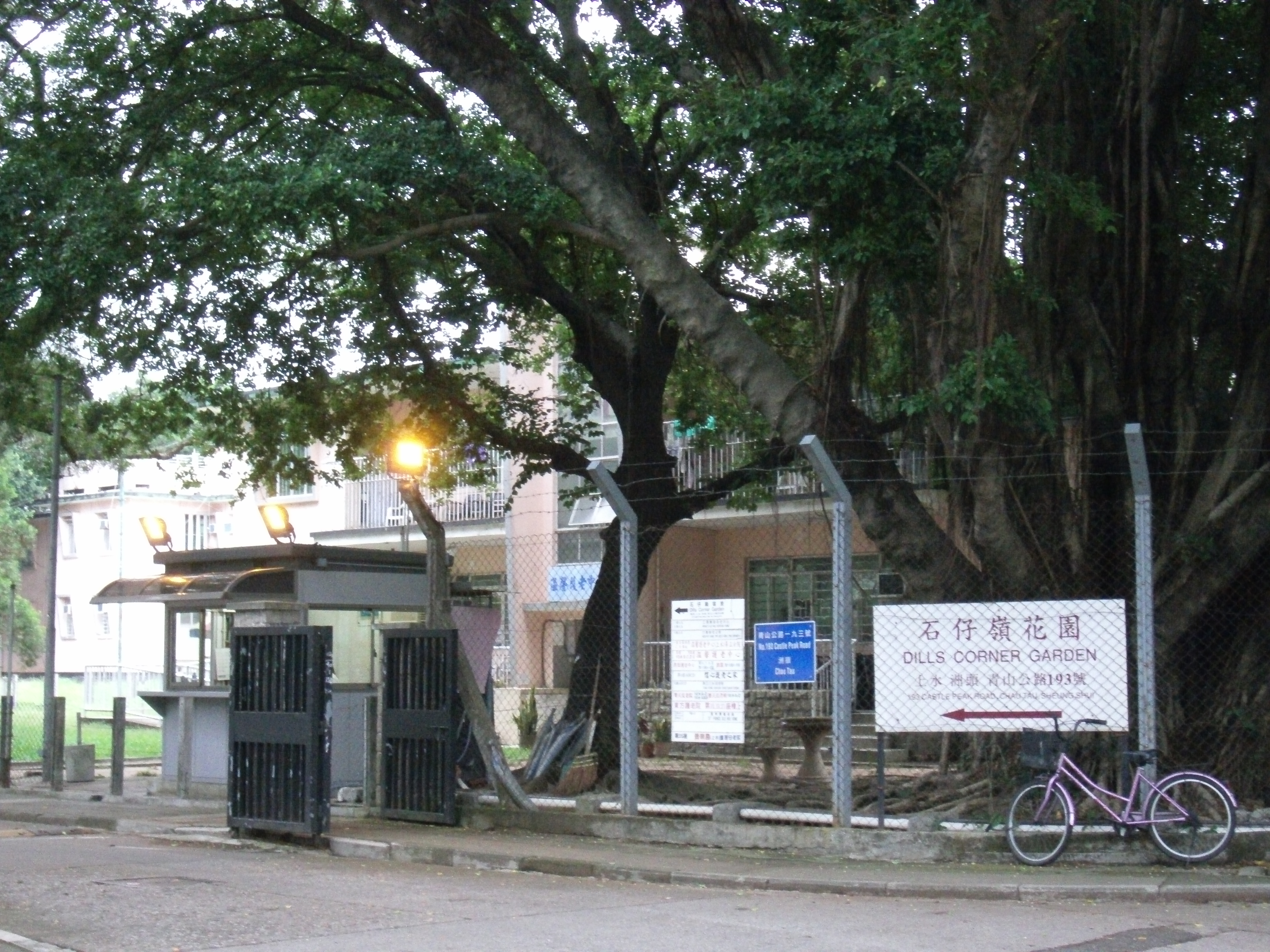 Dills Corner Garden (Home for the Aged)